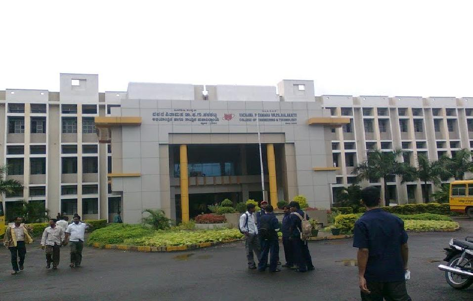 Main Building of BLDEA's Dr.P.G.Halakatti College of Engineering and Technology. Bijapur - 586101, Karnataka , India.